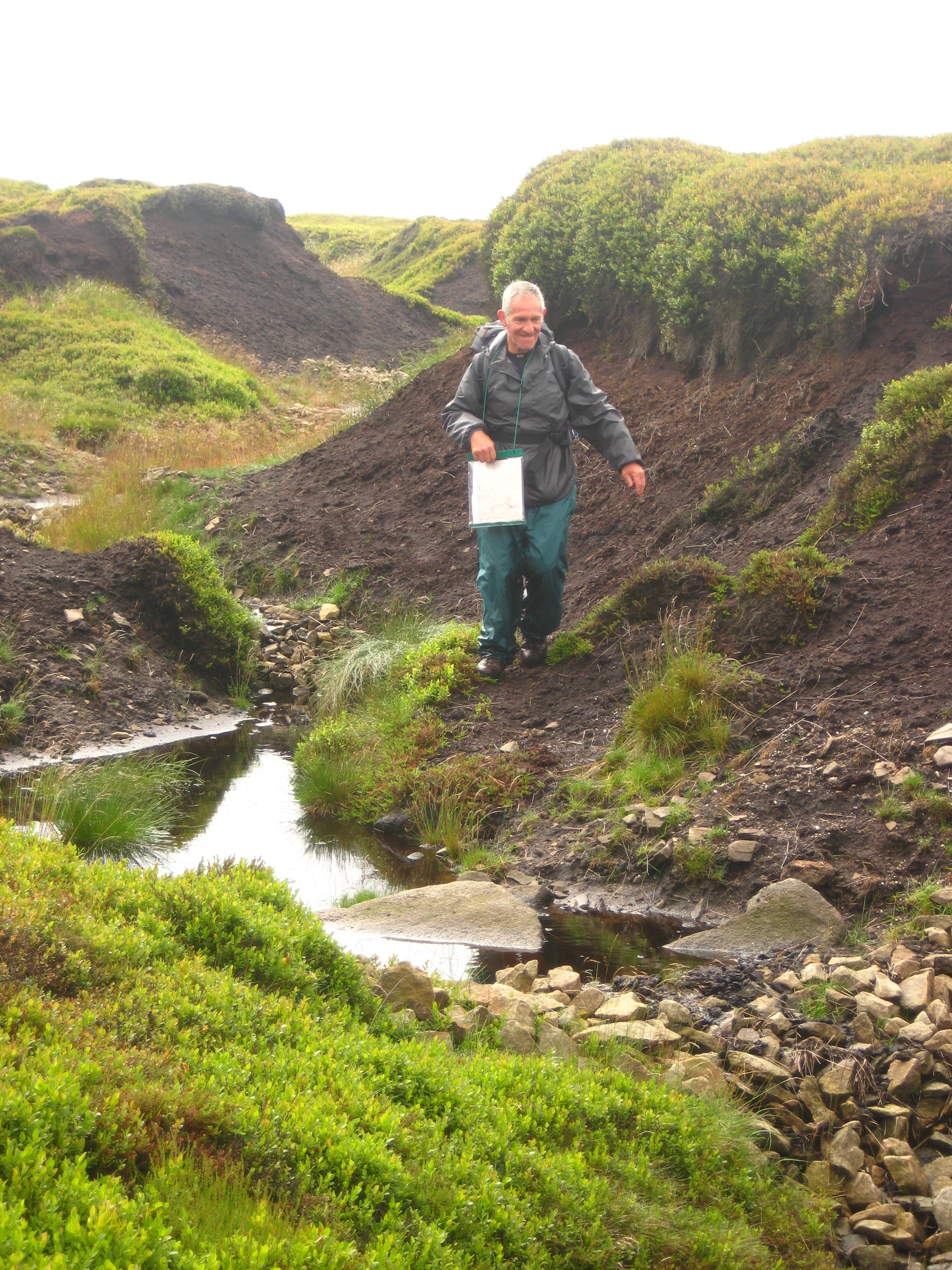 Descending eroded peat gully on east flank of Bleaklow. This image demonstrates the depth of peat on Bleaklow, as well as recent efforts at gullly-blocking and damming to re-wet and restore the moorland habitat. Picture taken whilst walking the Derwent Watershed Route.